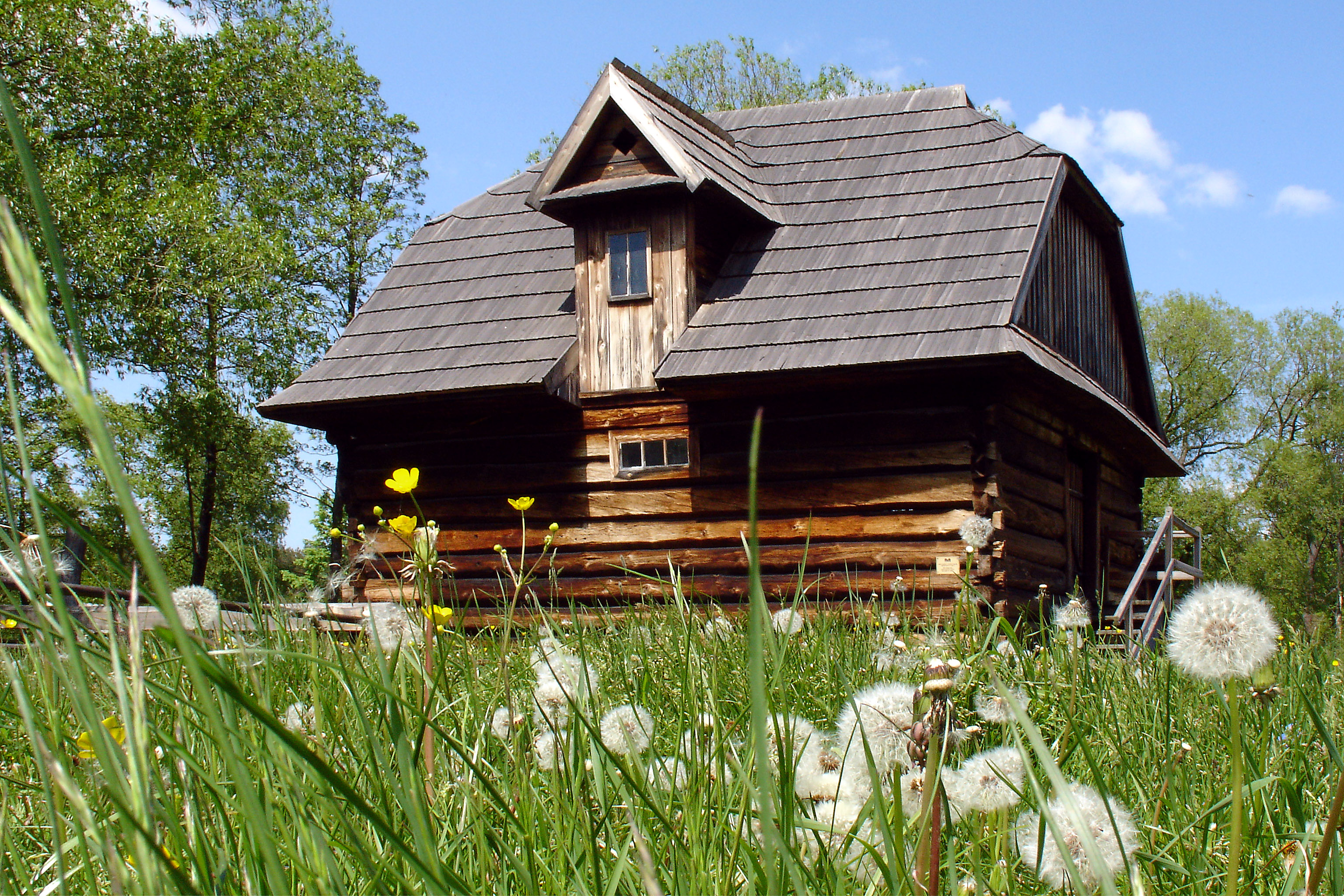 The water-mill from Żołynia